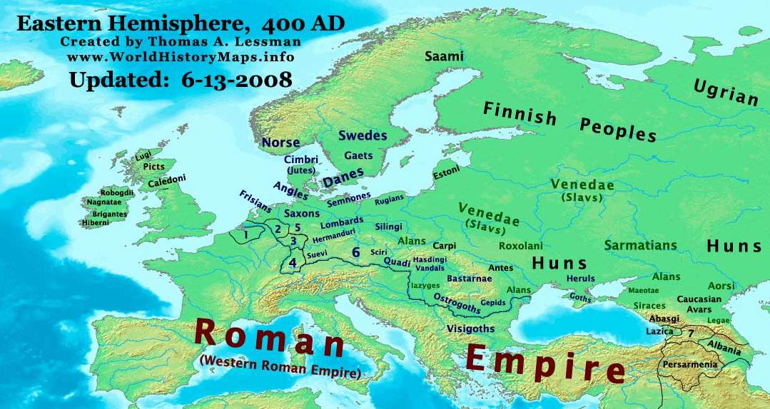 Eastern Hemisphere in 400 AD